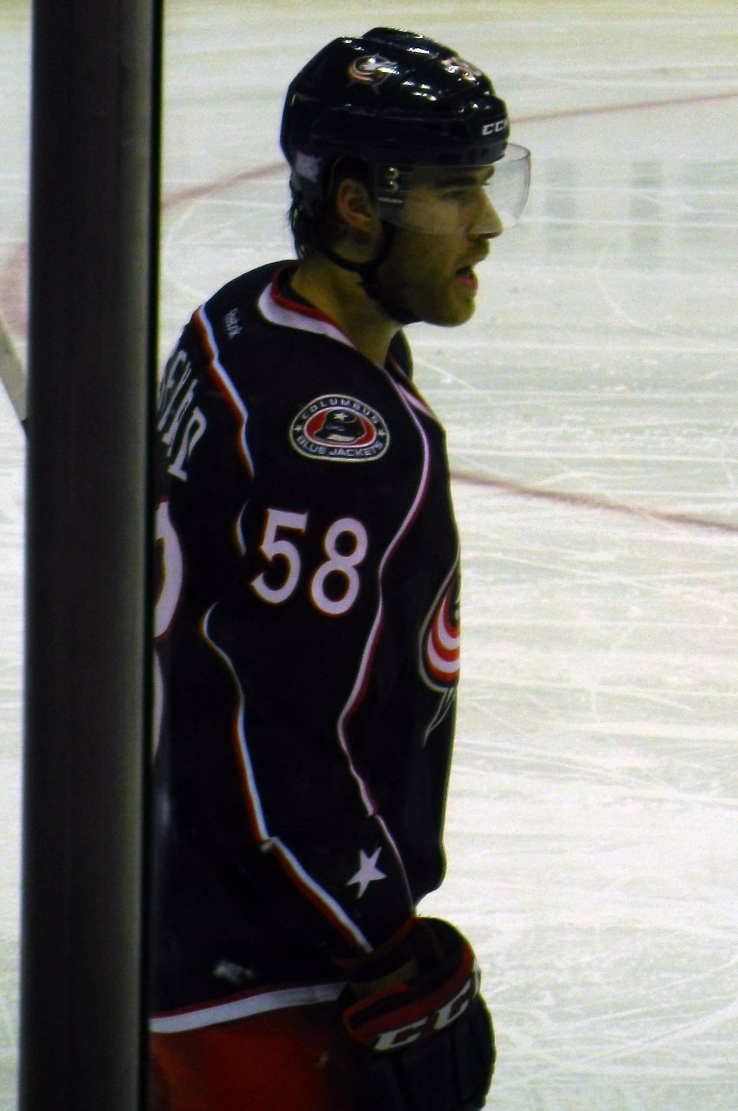 David Savard playing for the Columbus Blue Jackets during the 2013-14 season